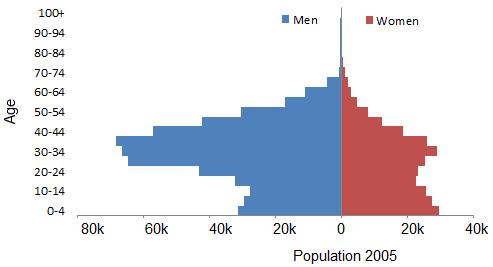 Own work based on speadsheet available at